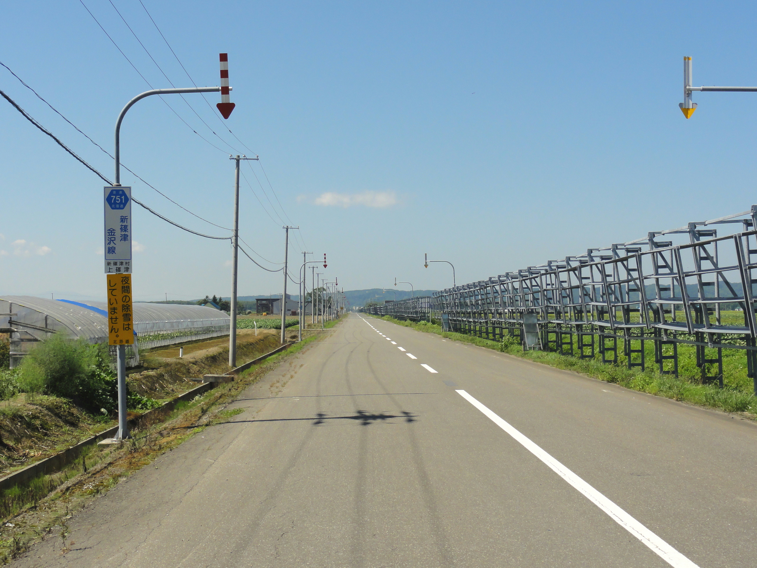 Hokkaido Pref Route 580 (Shinshinotsu, Hokkaidō)